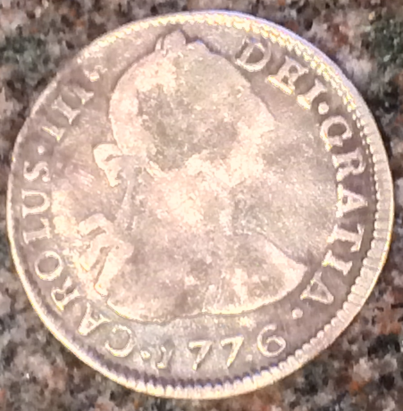 Obverse of a 1776 Charles III Spanish colonial two reales ("two bits") piece. Potosi Mint.